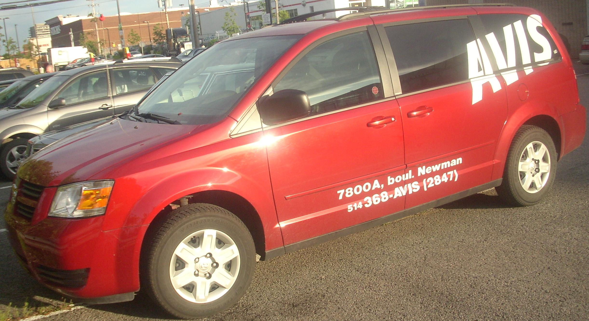 Dodge Grand Caravan photographed in Montreal, Quebec, Canada.